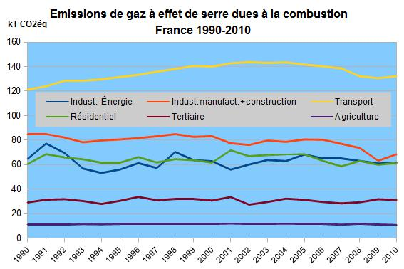 Greenhouse gases emissions from fuel combustion in France, 1990-2010 data source : EEA database